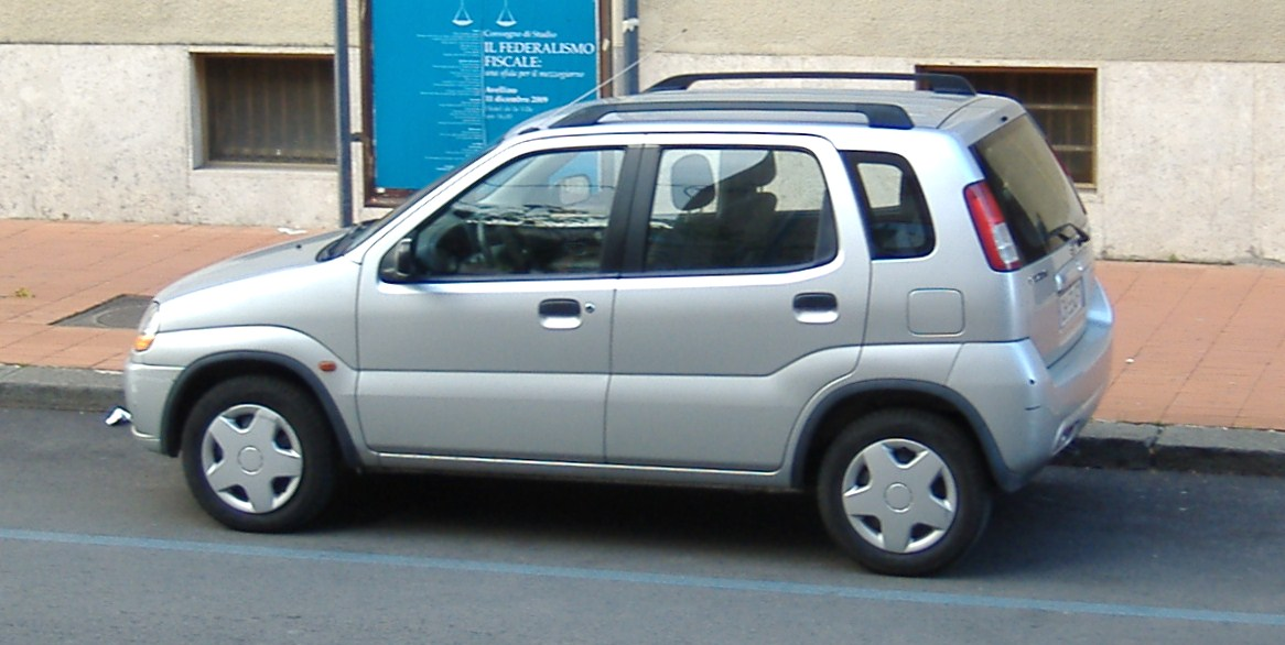 Suzuki Ignis MK1